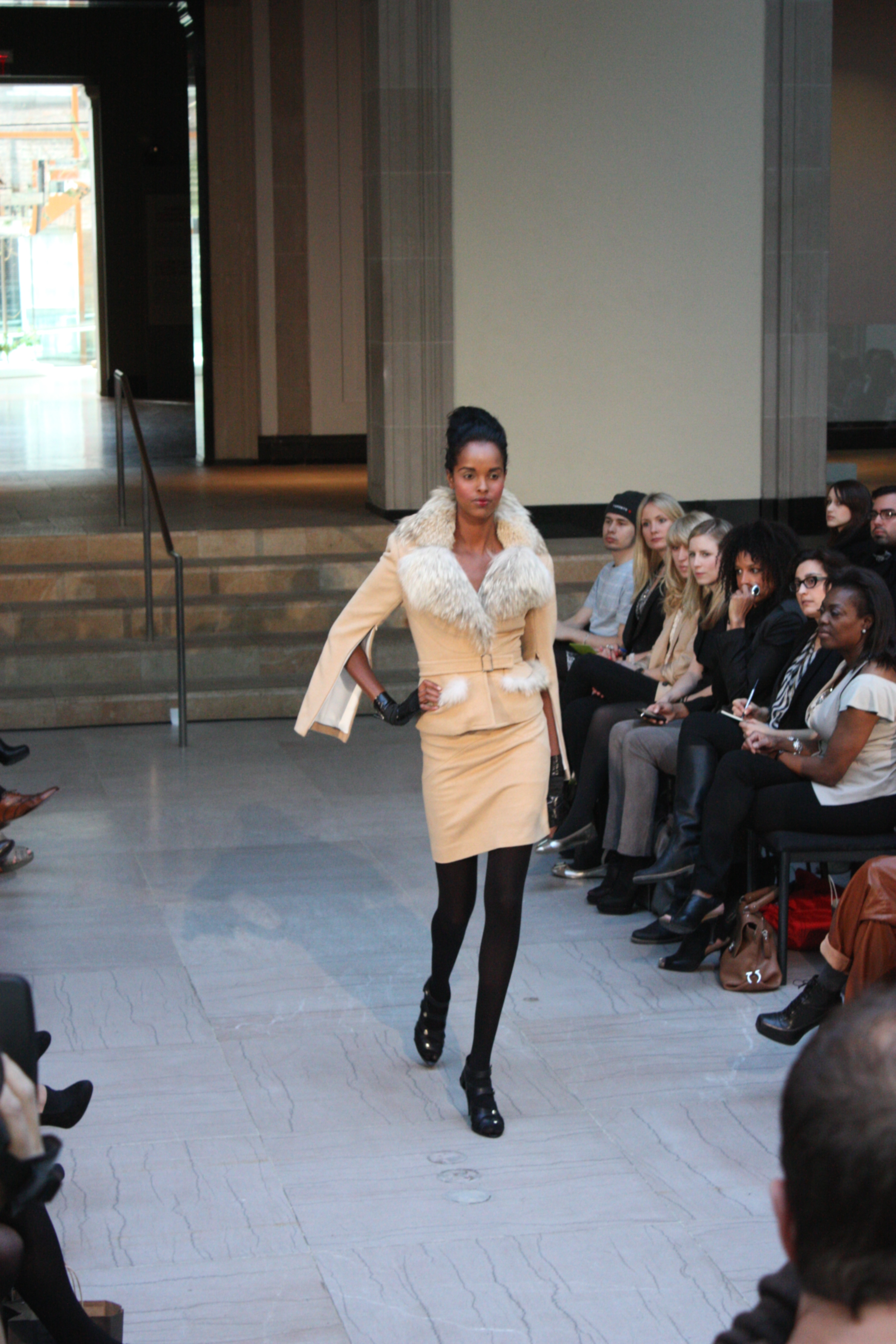 Model Ayan Elmi in a look from the VAWK by Sunny Fong Fall Winter 2010 runway show at Toronto Fashion Week